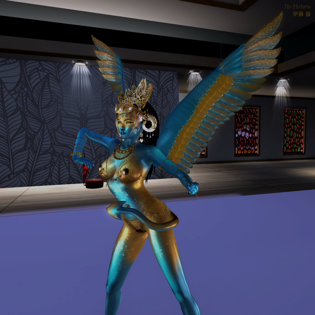 Second Life avatar of Ito Hotaru, created in October 2017 by using of the new Bento technology